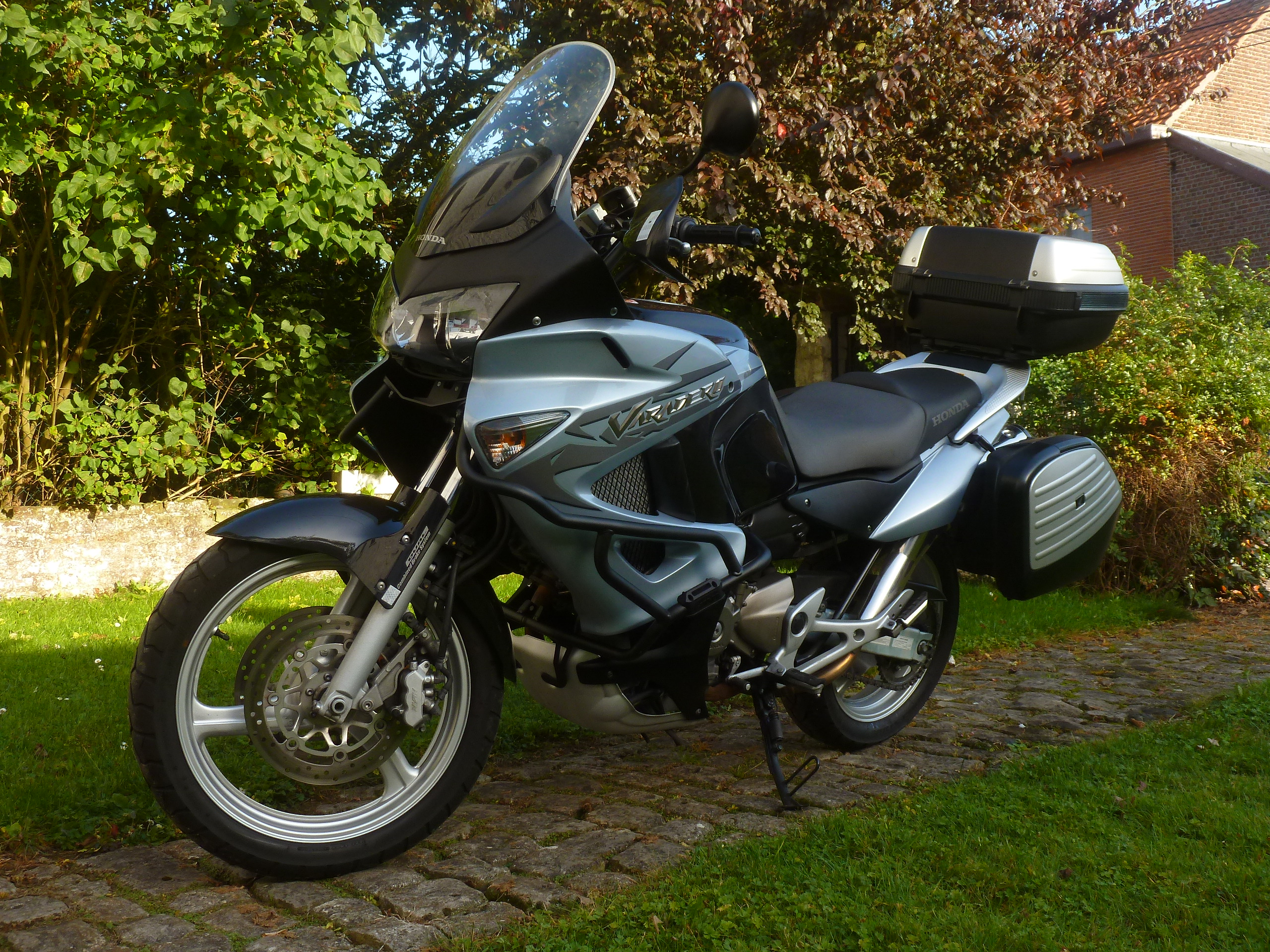 Honda Varadero 1000 model 2008